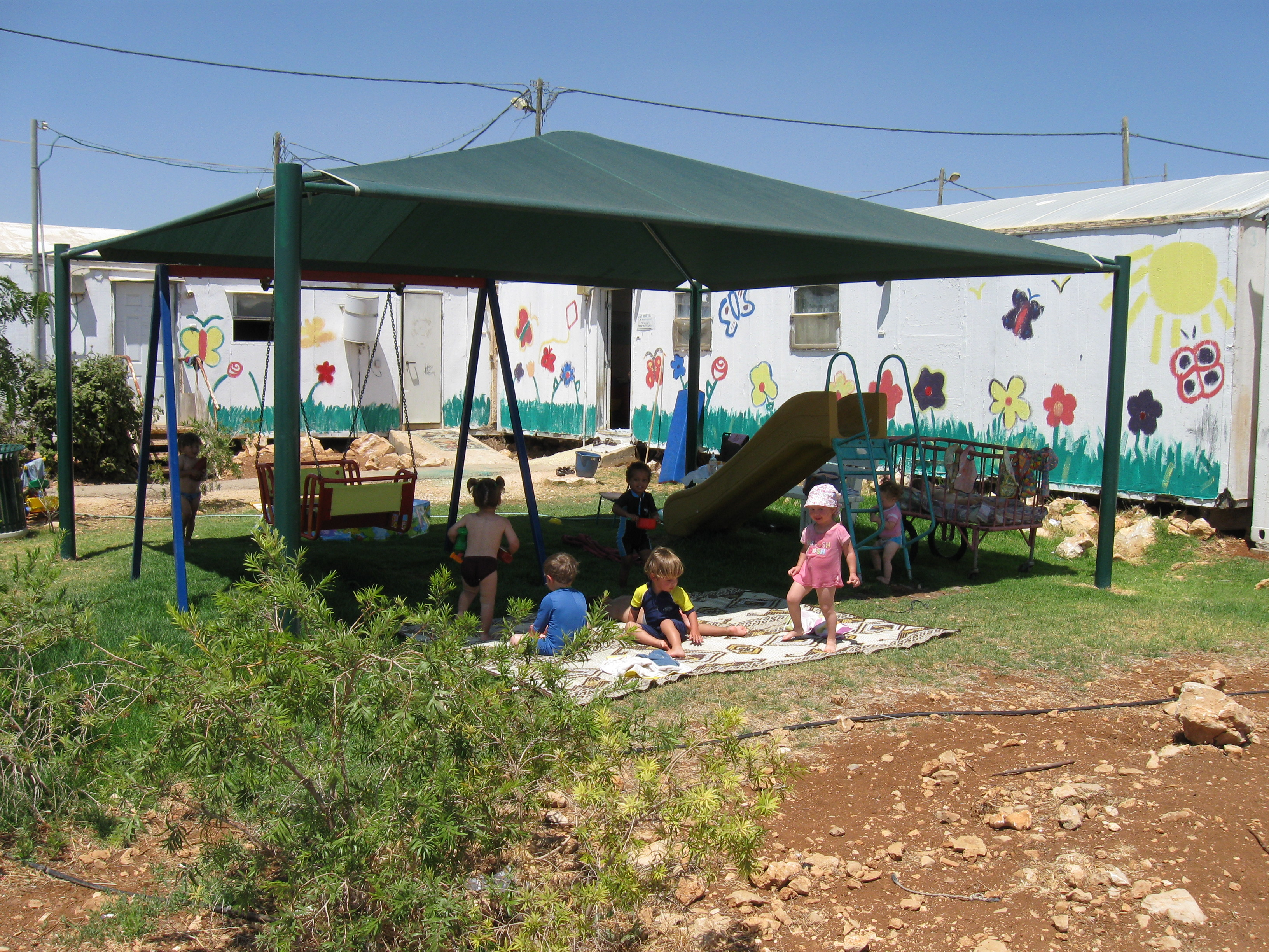 Children_garden_at_Migron